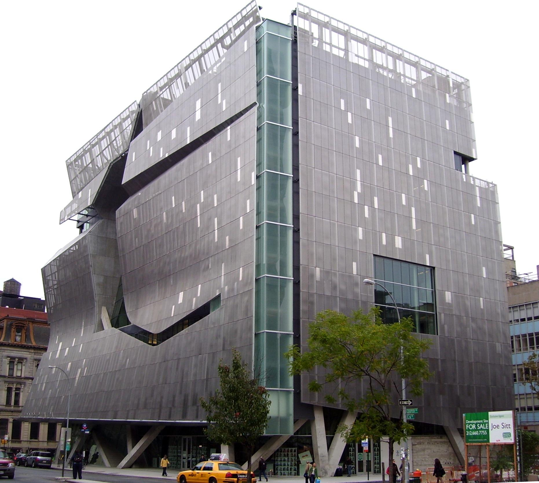 Cooper Union New Academic Building at 41 Cooper Square near Astor Place in the East Village of Manhattan, New York City. Designed by Thom Mayne of Morphosis Architecture, with Gruzen Samton as associate architect, the building opened in the Summer of 2009. This view is from the southwest.